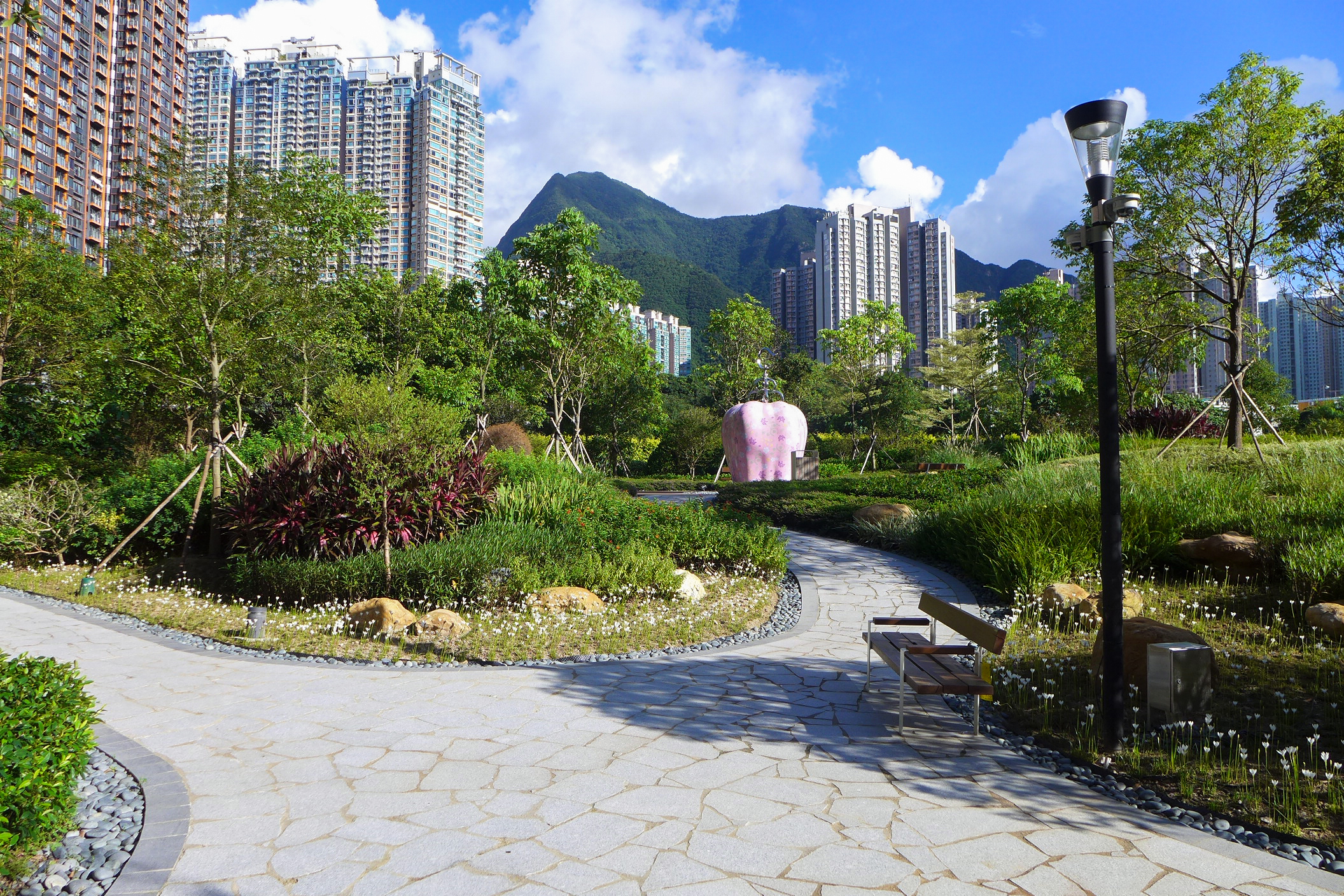 Double Cove Phase 4 Garden